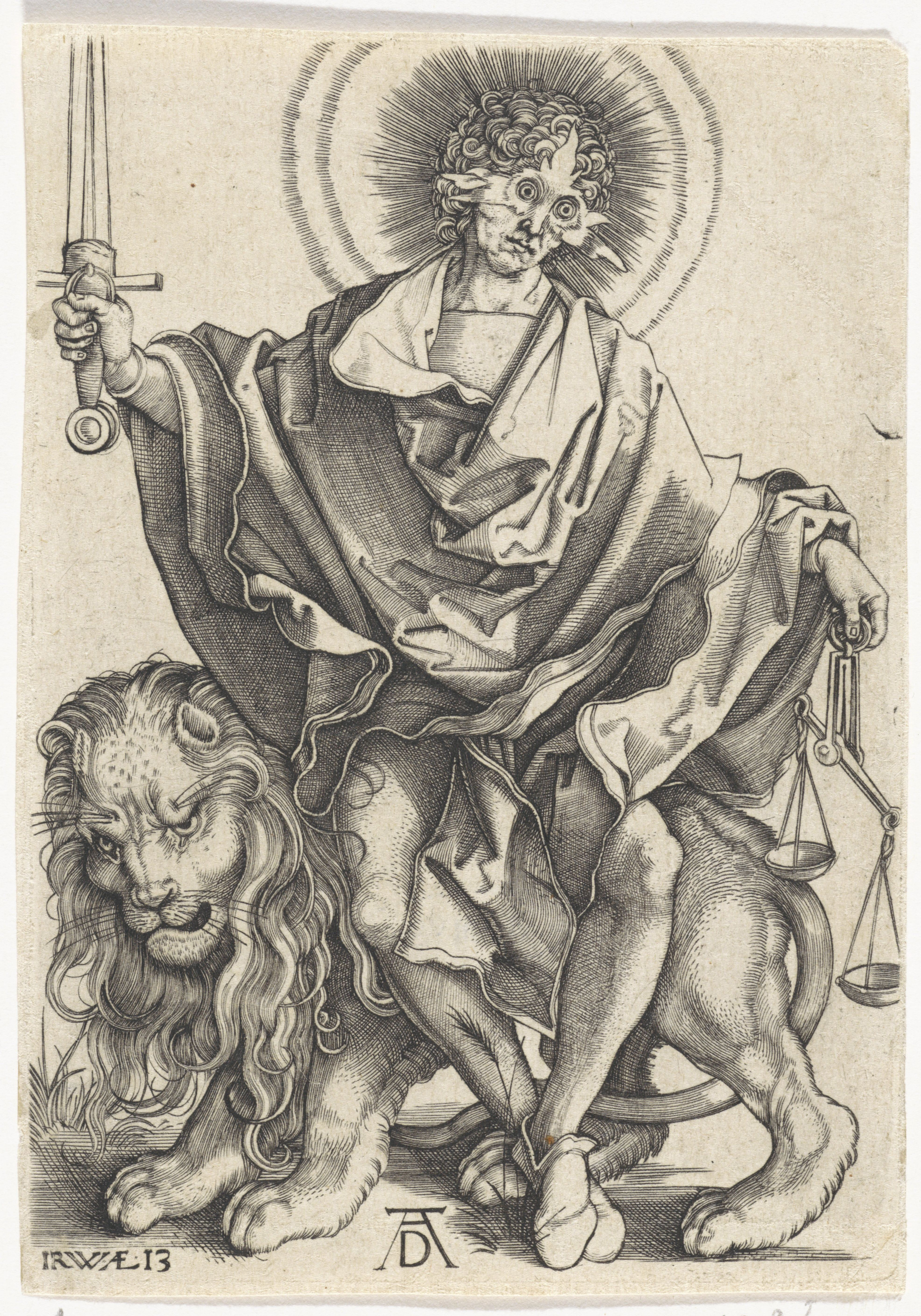 Justice as a sun god, with a sword in one hand and a balance in the other, seated on a lion. Centered under the Albrecht Dürer monogram